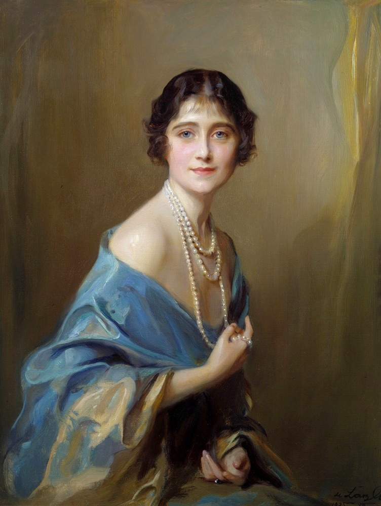 Elizabeth Angela Marguerite Bowes-Lyon (Queen Elizabeth, The Queen Mother)